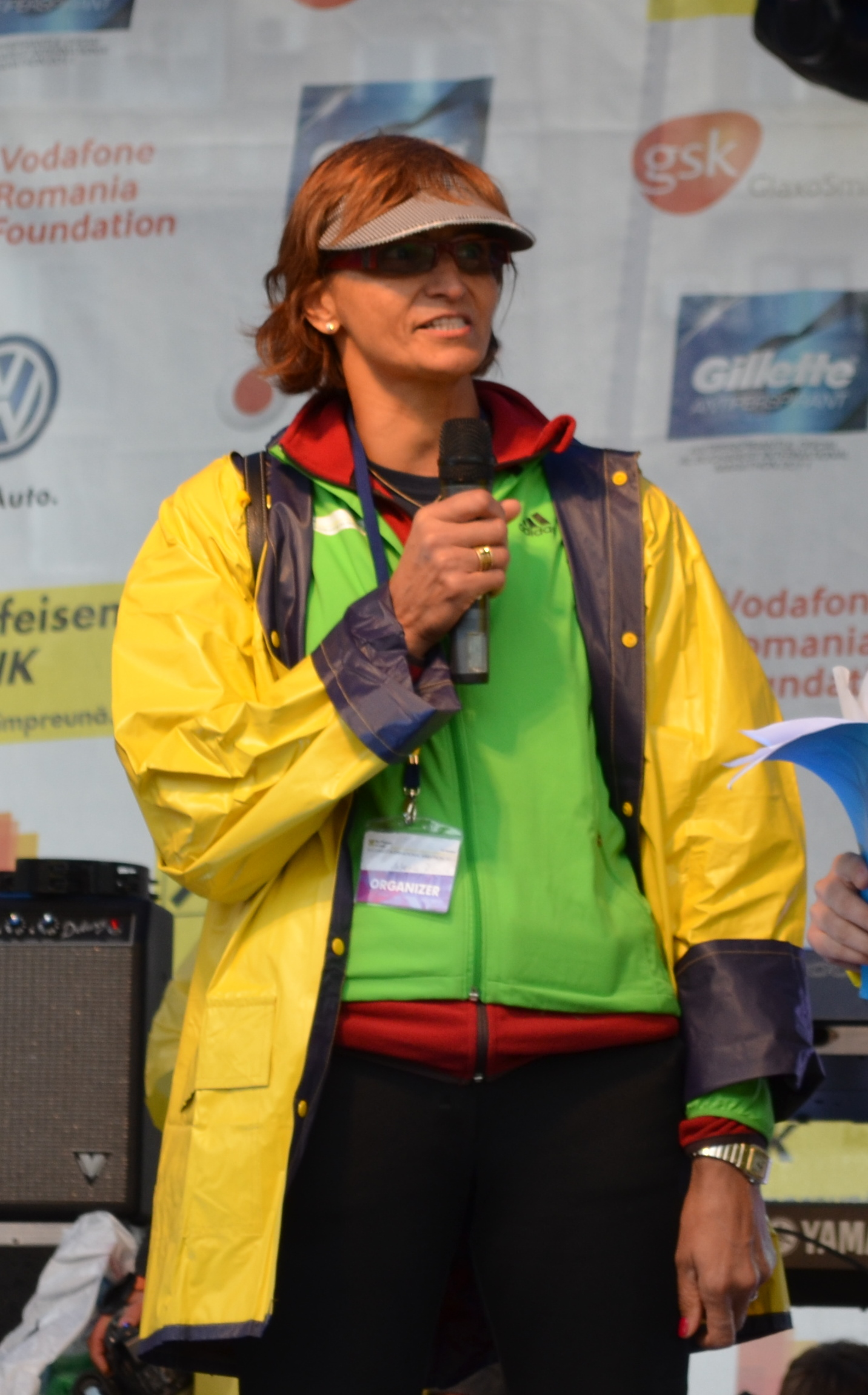 Valeria Răcilă van Groningen, Olimpic Champion rower, organizer of the Bucharest International Marathon 2011